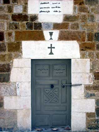 Saint Awtel's Church door in Kfarsghab, Lebanon